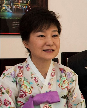 Secretary of Defense Chuck Hagel and Deputy Secretary of Defense Ashton Carter meet with Republic of Korea President, Park Geun-hye, prior to the 60th Anniversary Gala of the U.S.-Republic of Korea Alliance, at the National Portrait Gallery in Washington D.C. May 7, 2013. Hagel and President Park met to discuss issue of mutual concern.(Photo by Erin A. Kirk-Cuomo) (Released)